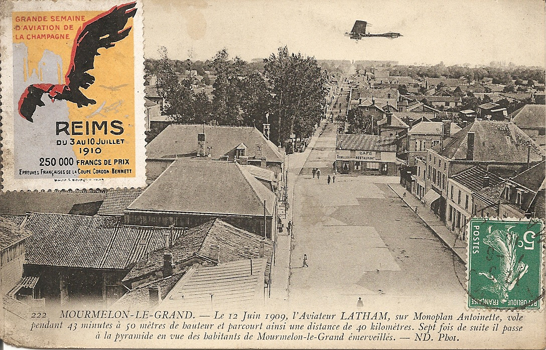 Flight by Hubert Latham around Mourmelon-le-Grand on june 12th 1909 (Marne, France).